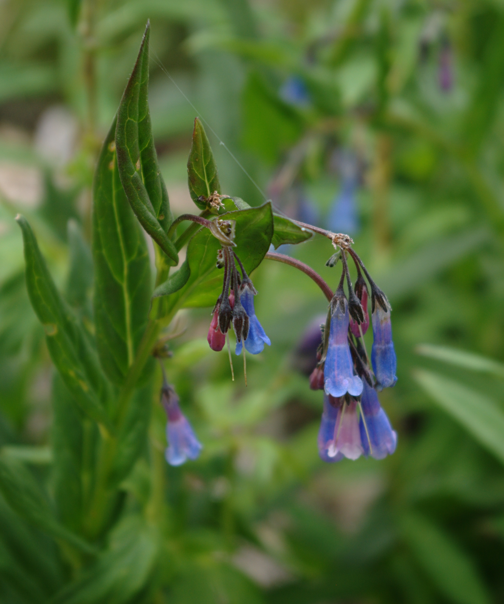 Mertensia franciscana (Franciscan bluebell or Franciscan lungwort), Santa Fe Ski Basin, near Santa Fe, New Mexico. A little unsharp mask on the in-focus parts. If anyone insisted this was M. ciliata, I wouldn't bet my life on my identification, but it's based on the hairy sepals (not just at the fringes) and the bristly upper surfaces of the leaves (most visible at the edges).